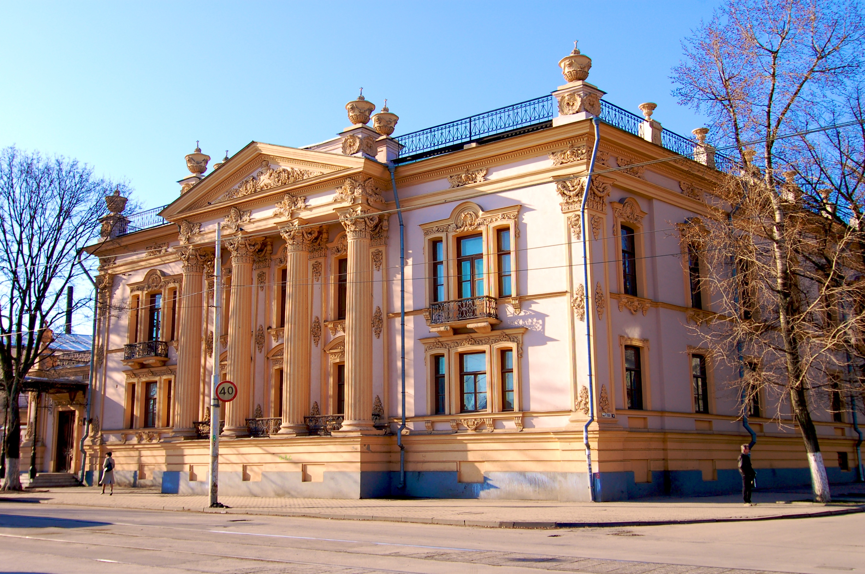 Alferakis Palace in Taganrog